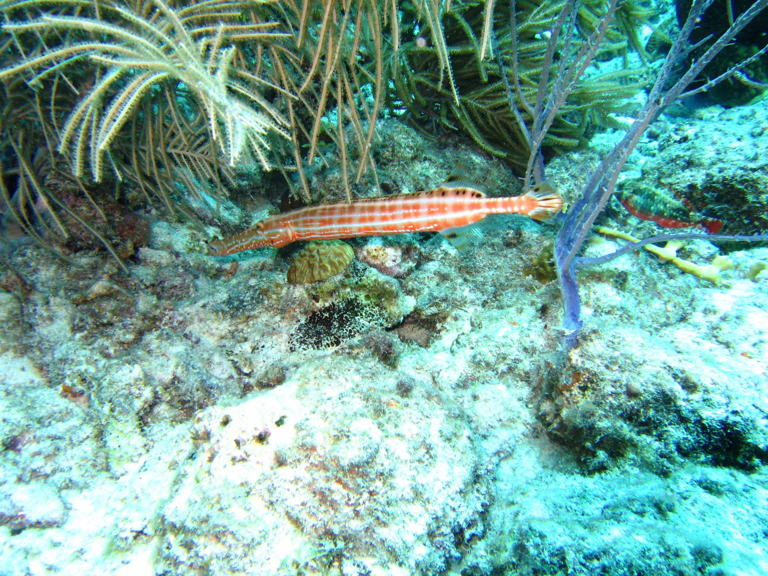 Trumpet fish (Aulostomus maculatus) outside Curacao